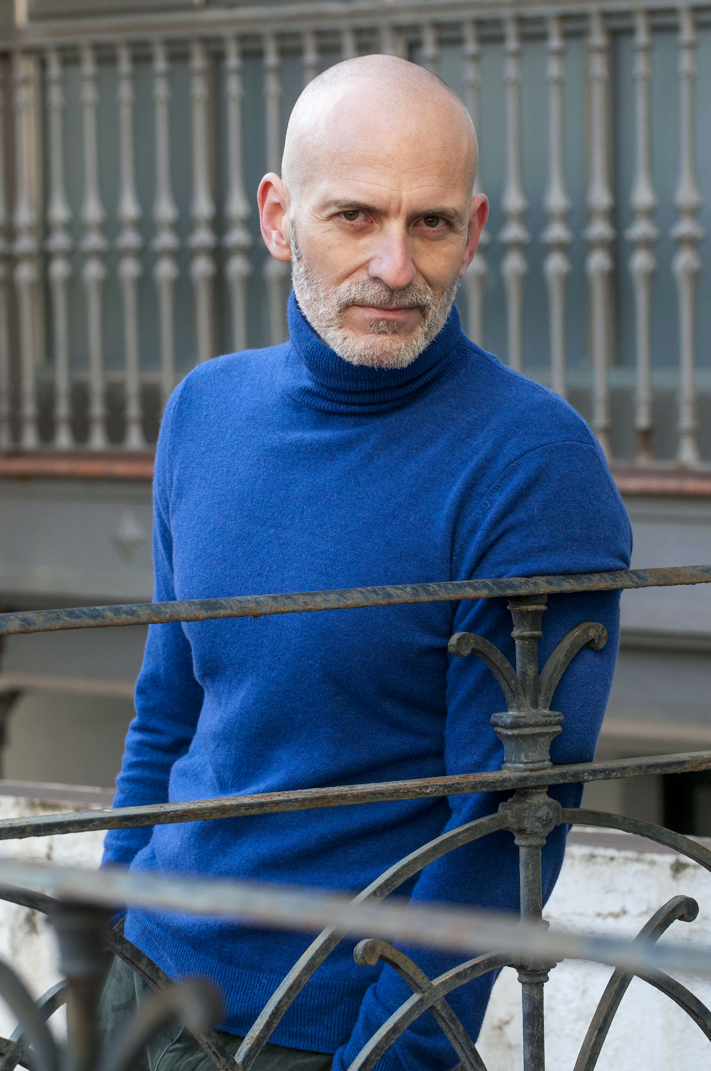 Festa de les Lletres Catalanes 2014. + Fotos: Òmnium / Dani Codina